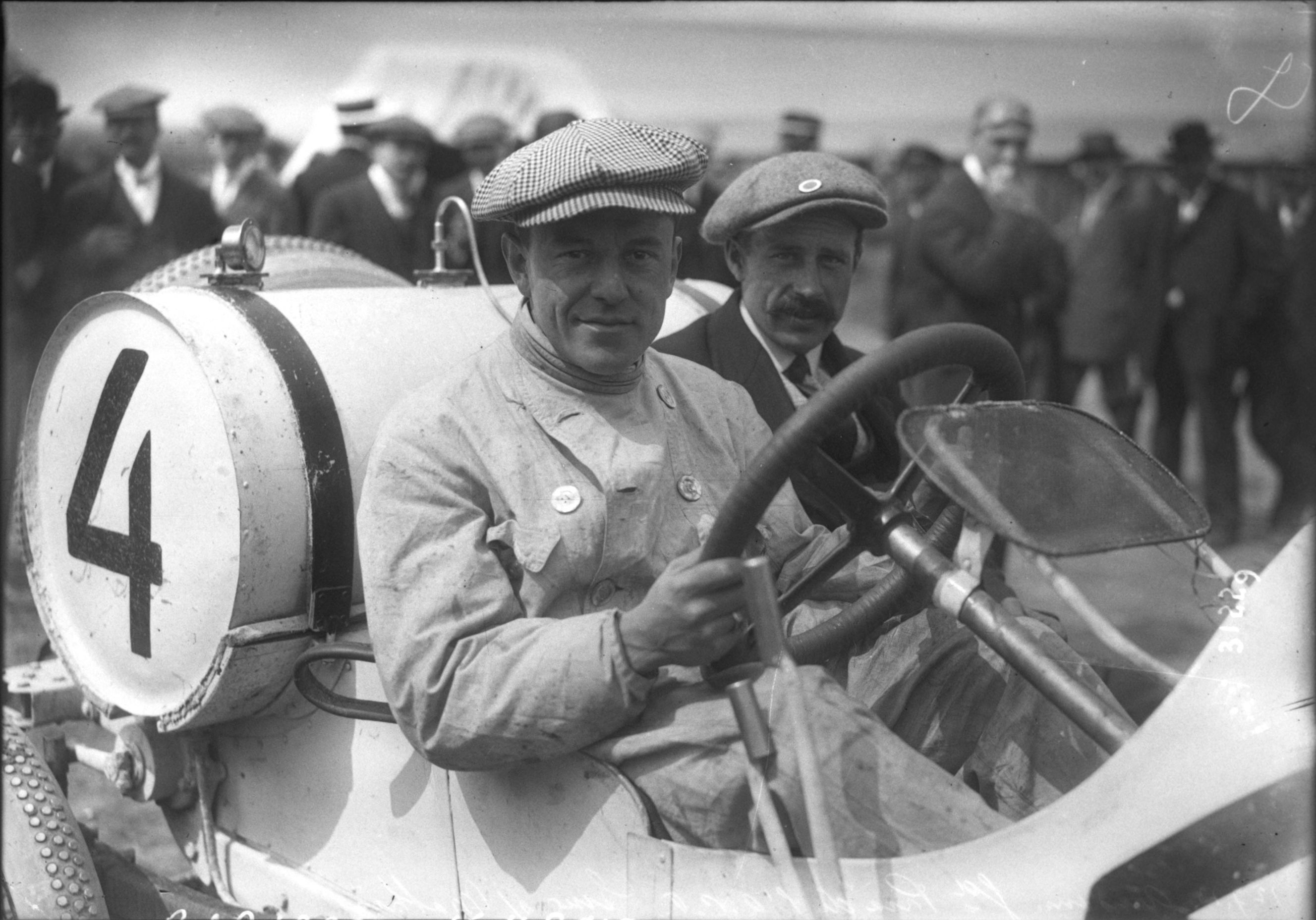 Dragutin Esser at the 1913 French Grand Prix